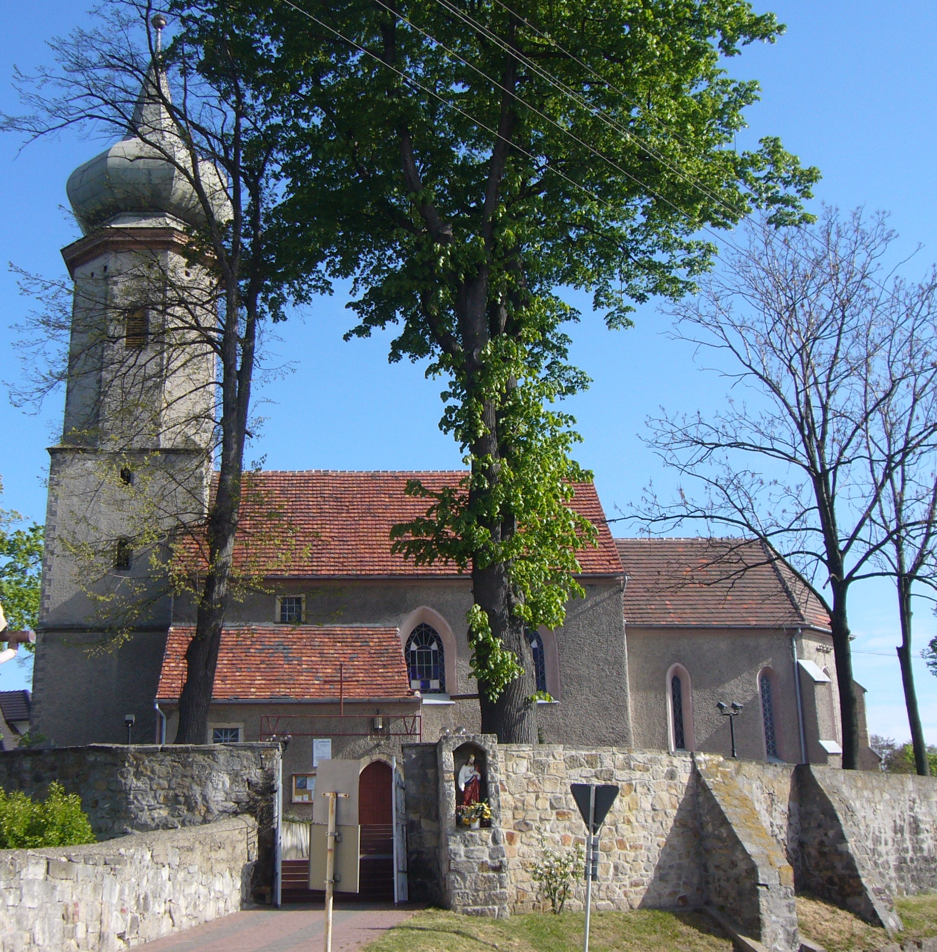 The oldest church in town under the invocation of Good Rosary Mother mentioned in documents at first in 1270 year.